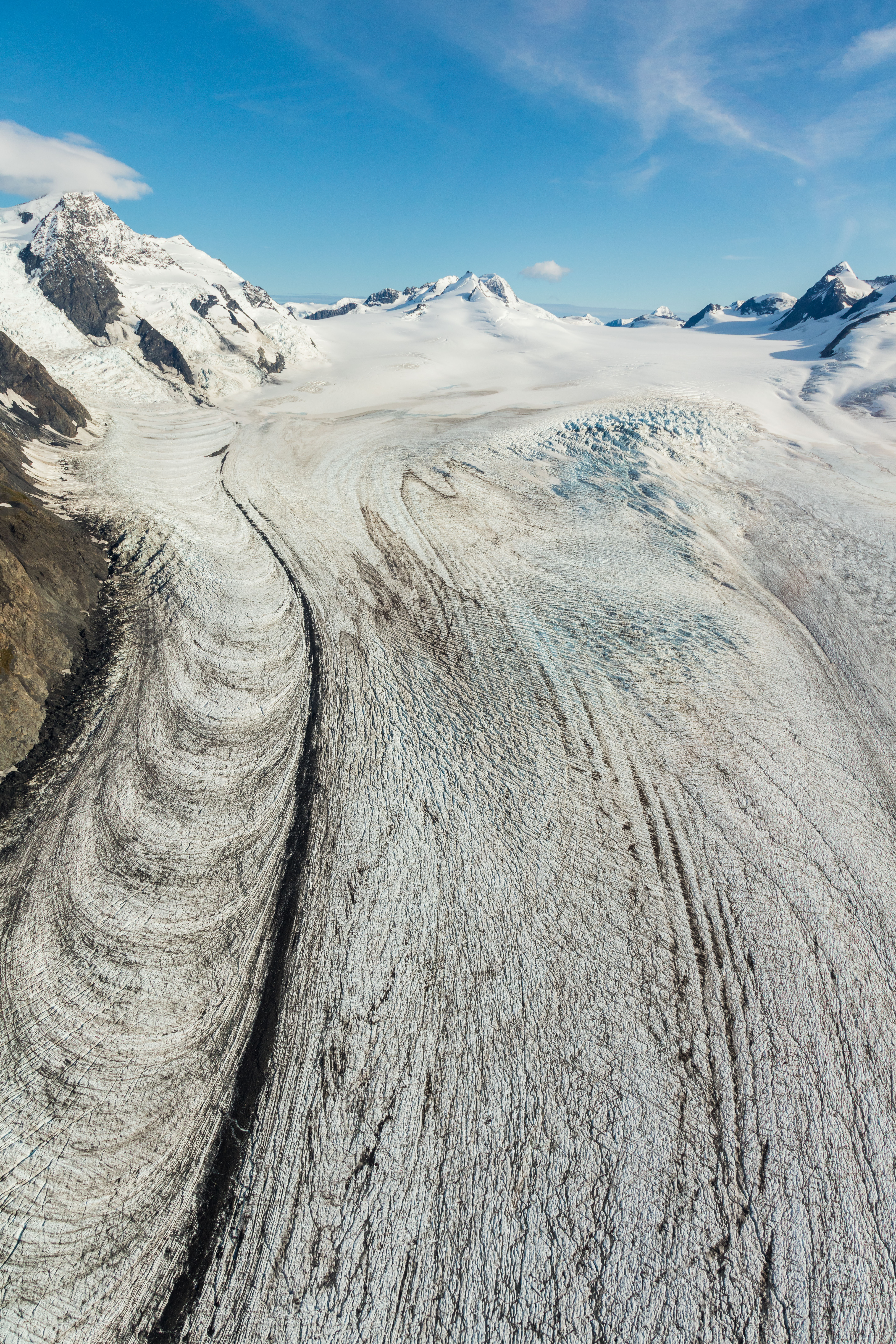 Chugach State Park, Alaska, United States